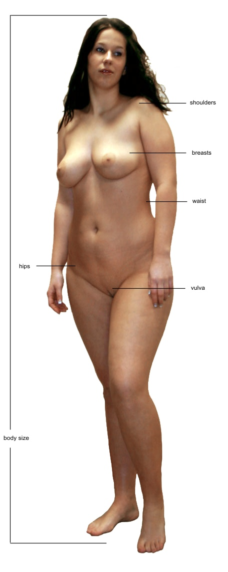 young woman with labels of her sexual characteristics